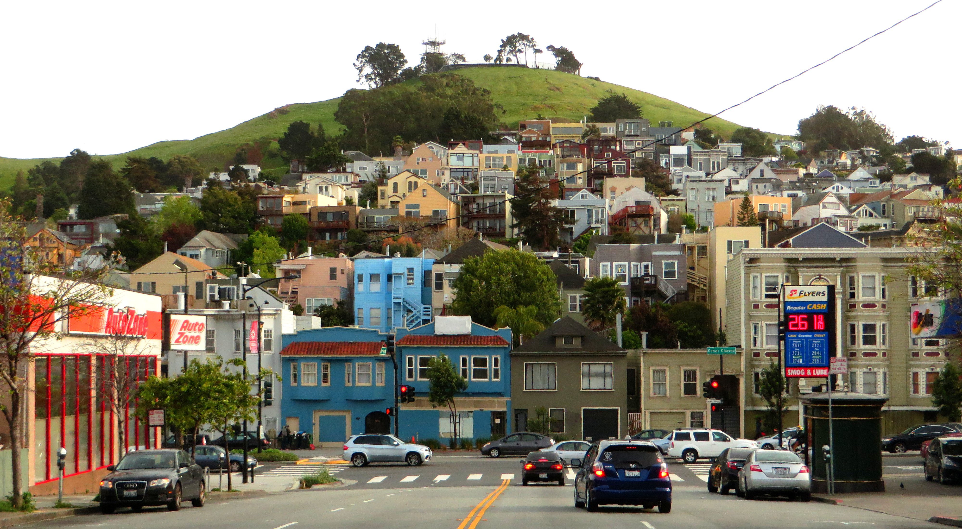 Bernal Heights is a residential neighborhood in southeastern San Francisco, California. The prominent Bernal Heights hill overlooks the San Francisco skyline and features a microwave transmission tower. The nearby Sutro Tower can be seen from the Bernal Heights neighborhood. Bernal Heights lies to the south of San Francisco's Mission District. Its most prominent feature is the open parkland and radio tower on its large rocky hill, Bernal Heights Summit. Bernal is bounded by Cesar Chavez Street to the north, San Jose Avenue to the west, US 101 to the east, and I-280 to the south. By the 1990s, Bernal's pleasant microclimate, small houses (some with traditional Victorian or Edwardian architecture) and freeway access to the peninsula and Silicon Valley led to a third wave of migration. Bernal has not gentrified to the extent of its neighbor Noe Valley, but gentrification and property values are increasing as urban professionals replace working-class home owners and renters.